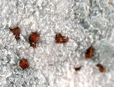 Joaquinite-(Ce), Natrolite Locality: Dallas Gem Mine (Benitoite Mine; Benitoite Gem Mine; Gem Mine), Dallas Gem Mine area, San Benito River headwaters area, New Idria District, Diablo Range, San Benito County, California, USA (Locality at ) Size: 8.5 x 7.6 x 0.8 cm. A VERY LARGE specimen of natrolite matrix with SHARP, LUSTROUS, caramel-colored joaquinites to 2mm in size spaced like a ribbon running the length of the piece. These are actually larger and sharper than average for the species. Ex. Martin Zinn Collection.